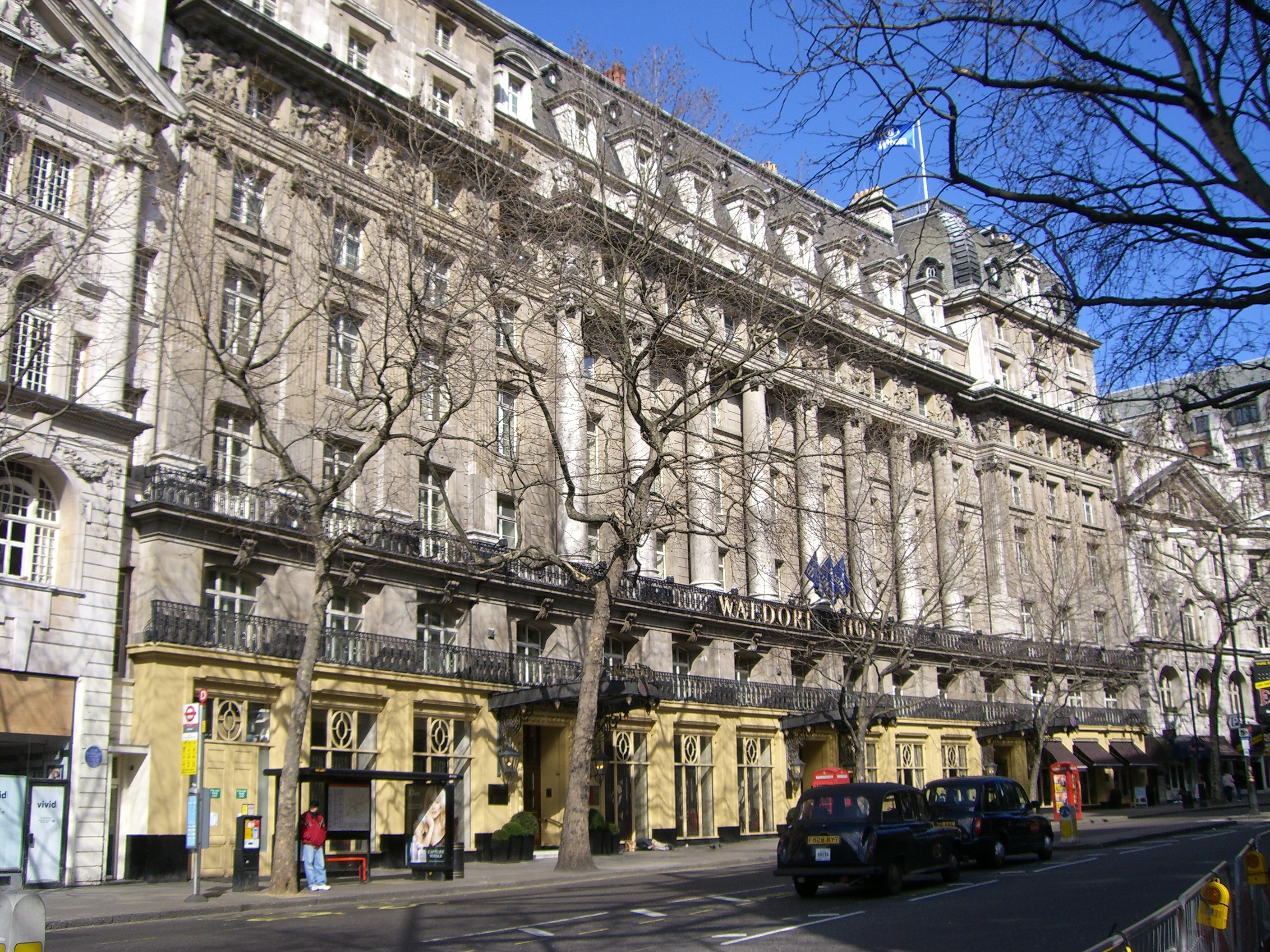 Waldorf Hilton, 22 Aldwych, London WC2B 4DD Photo taken by User:Edward on 19 March 2006 with a Casio EX-S600.